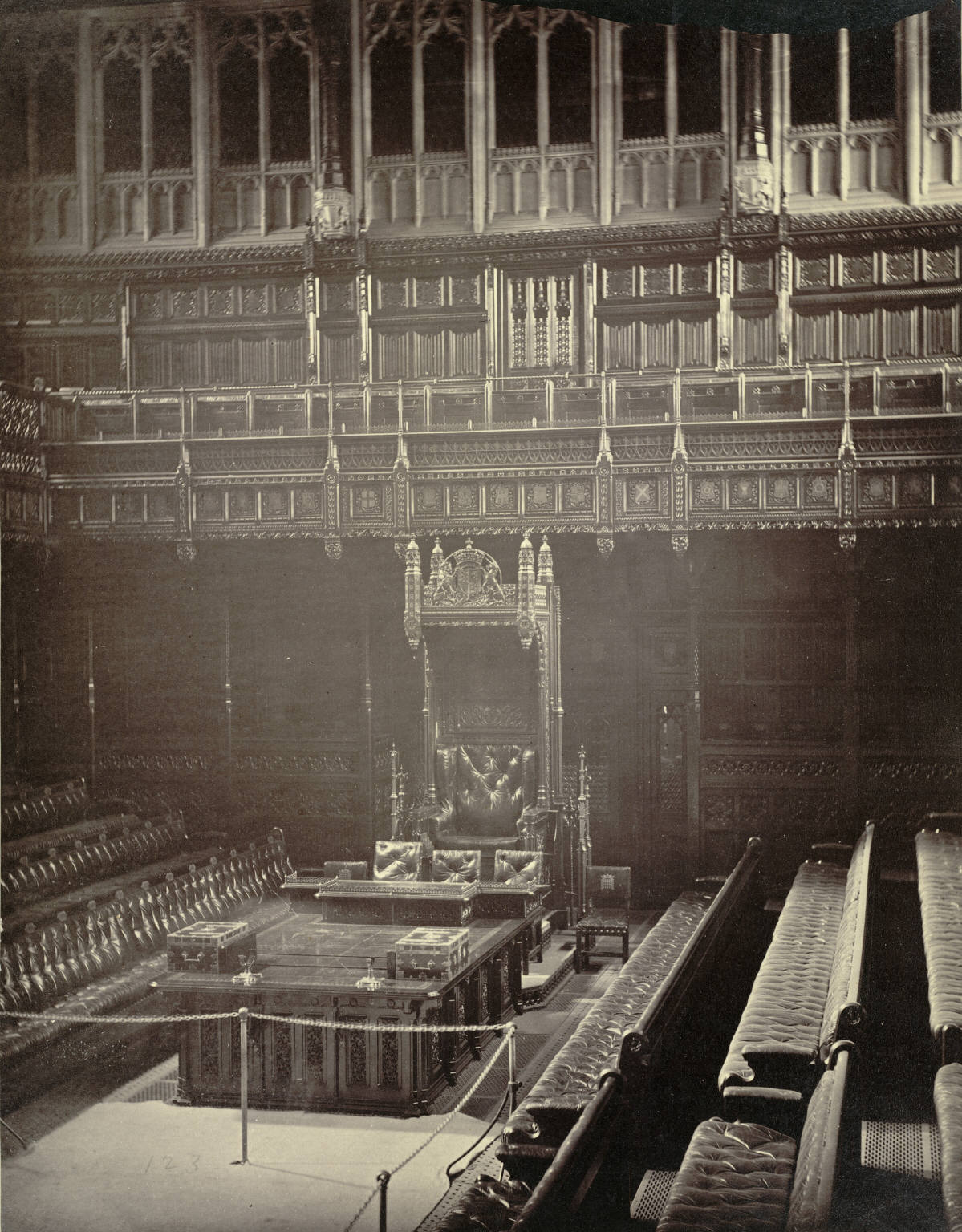 House of Commons. Speaker's Chair, albumen print showing the original Speaker's Chair, located in the Commons Chamber of the Palace of Westminster in London, England. The entire chamber, including the Speaker's Chair, was destroyed by an incendiary bomb in May 1941; it was rebuilt in a simplified style later in the decade.